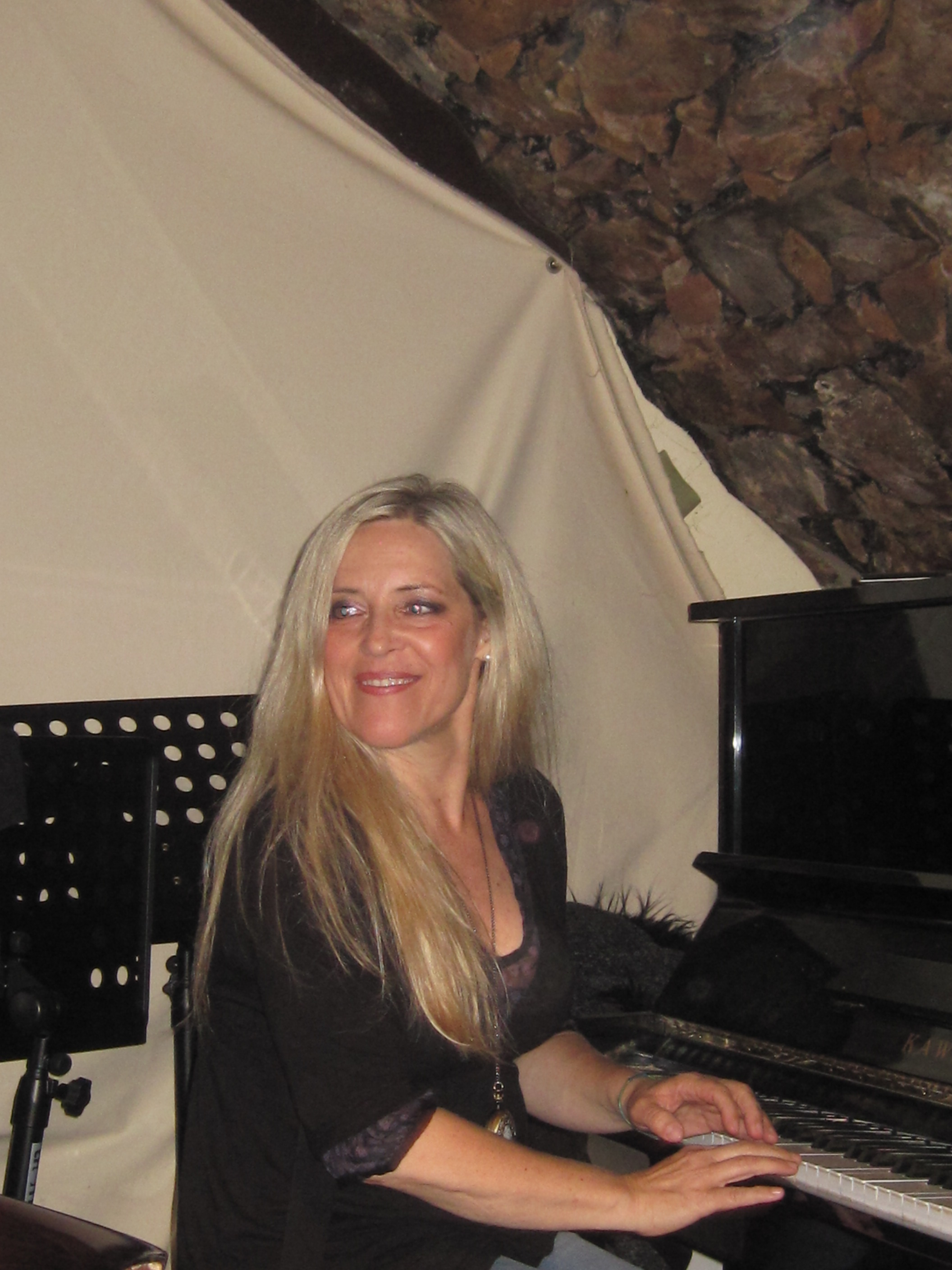 german jazz pianist Anke Helfrich, Marburg 2015